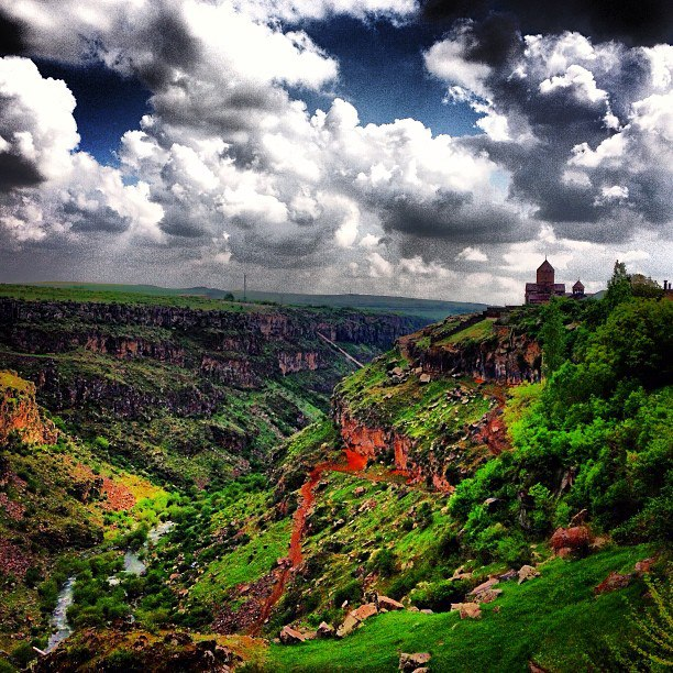 Ohanavan and the Hovhannavank Monastery are situated atop a steep gorge carved by the Kasagh river (Photo: Rupen Janbazian)